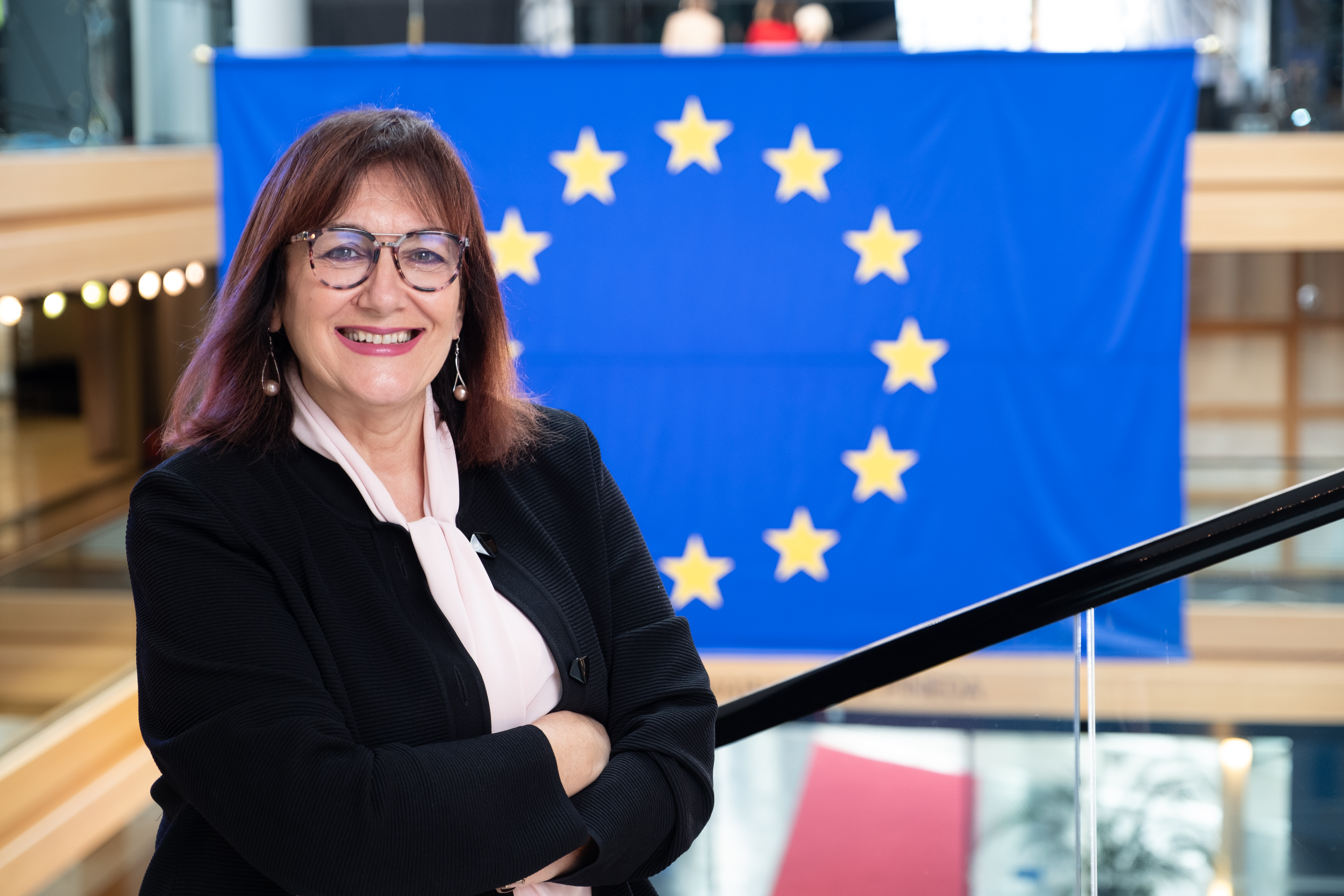 Dubravka Šuica in European Parliament